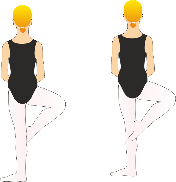 Ballet positions: retiré